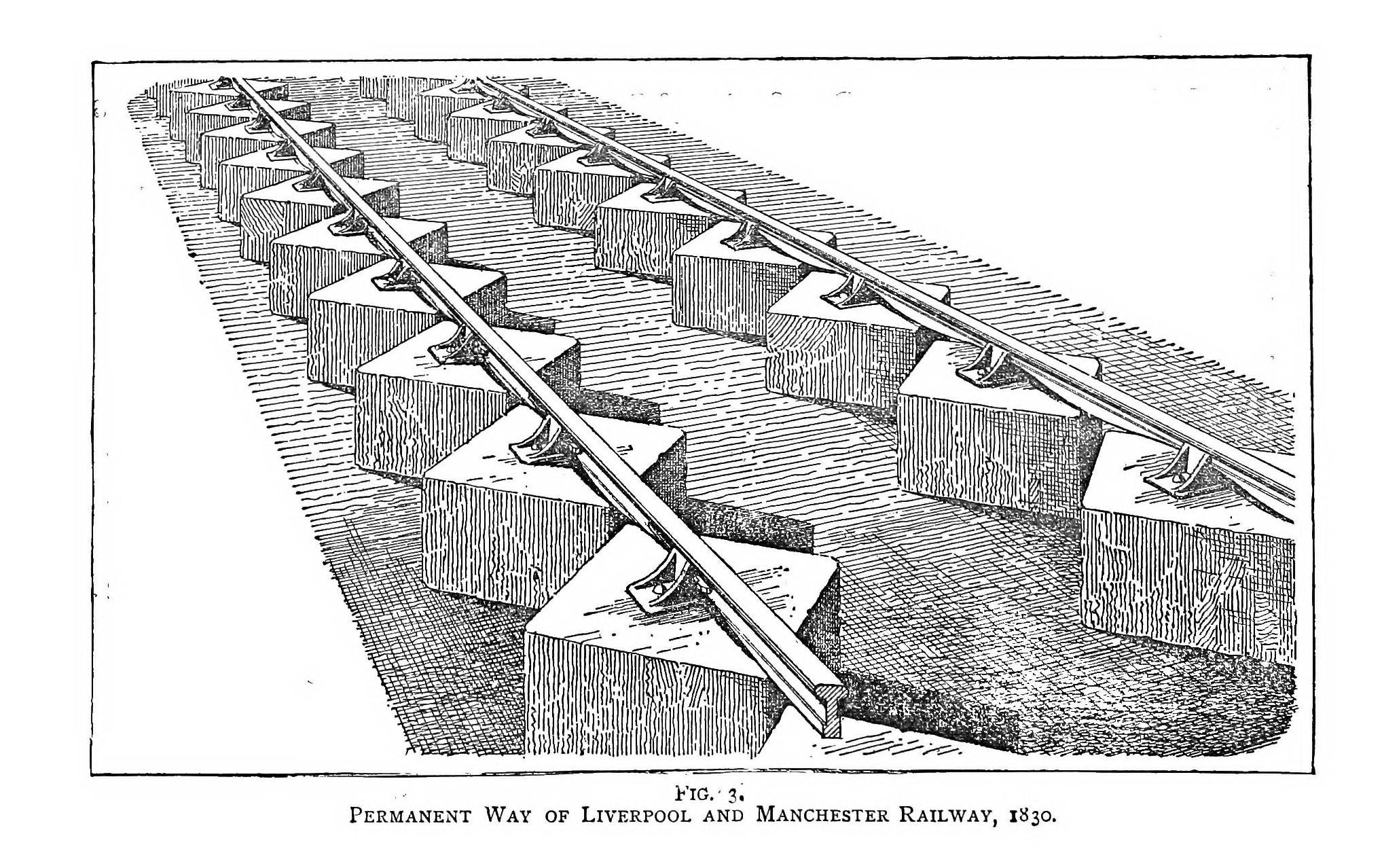 Fig. 3 Permanent Way of Liverpool and Manchester Railway, 1830.